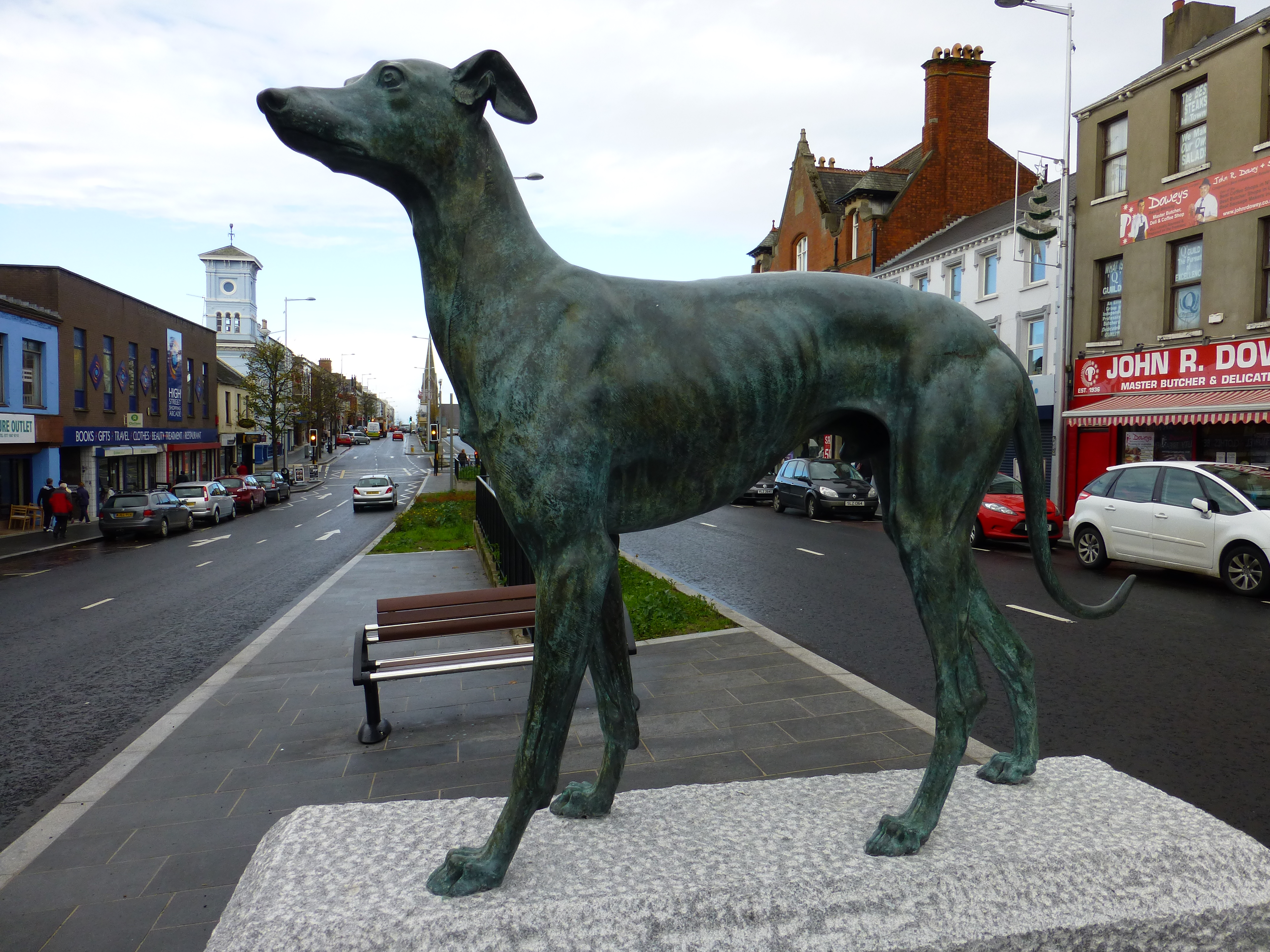 Bronze sculpture of Master McGrath in Lurgan, Co. Armagh, Ireland.The sculptor was Samuel Ferris Lynn (1834-1876) details at NLI "Samuel Lynn was born in County Wexford. He was educated at the Royal Academy School, Belfast, and studied architecture in his brother's Belfast office, at the same time attending classes at the Belfast School of Design. In 1854 he went to London and entered the Royal Academy, where, in 1875 one of his exhibits was a statue of Lord Lurgan's greyhound, Master McGrath, who had won the Waterloo Cup in 1868, 1869 and 1871 and had been beaten only once in thirty-seven races. He was an Associate of the Royal Hibernian Academy and a member of the Institute of Sculptors. Other works include the statues of Prince Albert on the Albert Memorial Clock, Belfast . . . and of Lord Downshire in Hillsborough. He died in Belfast."